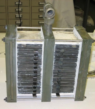 Solid_oxide_electrolyser_cell_prefab